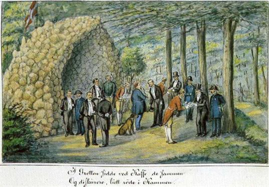 Frederick VII's grotto in Skodsborg, Denmark